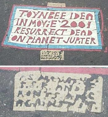 Large and colorful Toynbee tile found in downtown Washington D.C., with closeup of its bottom tab. Taken by User:Erifnam in 2002.